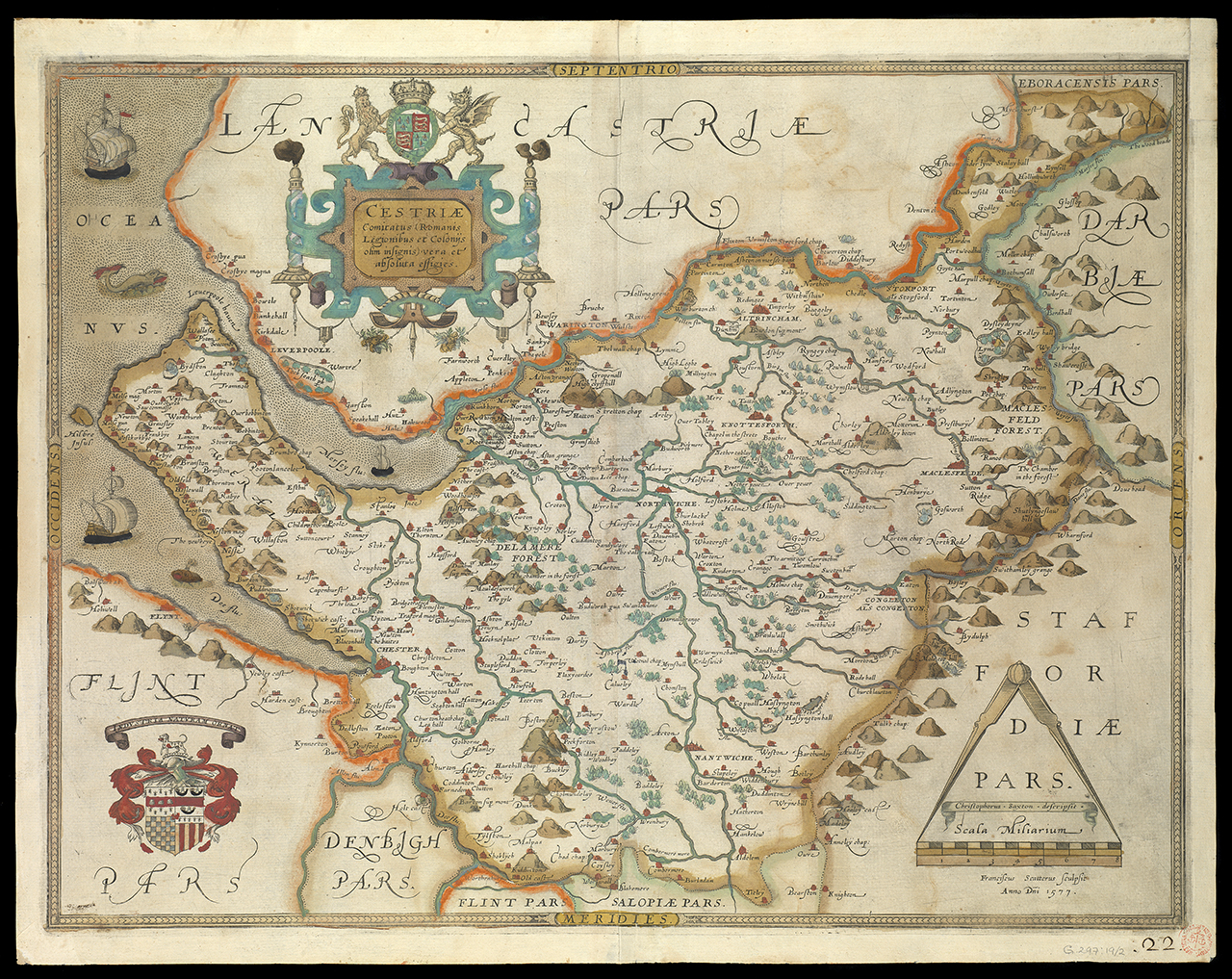 Cestriae [Cheshire] Comitatus (Romanis Legionibus et Colonys olim infignis) vera et abfoluta effigies. Chriftophorus Saxton defcripfit. Francifcus Scatterus fculpfit Anno Dno 1577. Scale: 1 mile = 11 cms (circa 1:7,000). Ungraduated coloured county map. '22' in MS bottom RH corner. Cestriae [Cheshire] Comitatus (Romanis Legionibus et Colonys olim infignis) vera et abfoluta effigies. Chriftophorus Saxton defcripfit. Francifcus Scatterus fculpfit Anno Dno 1577. G297:19/2